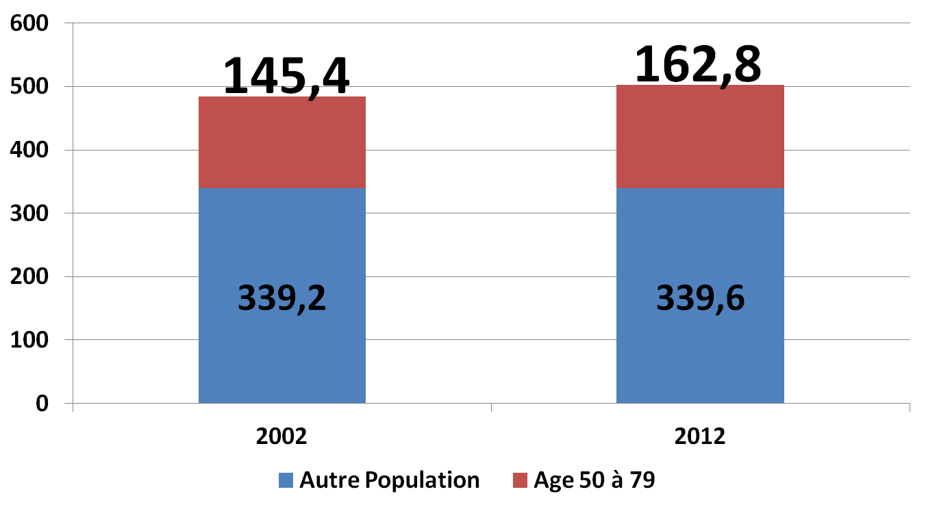 Histogram produced from data following the Eurostat European statistics